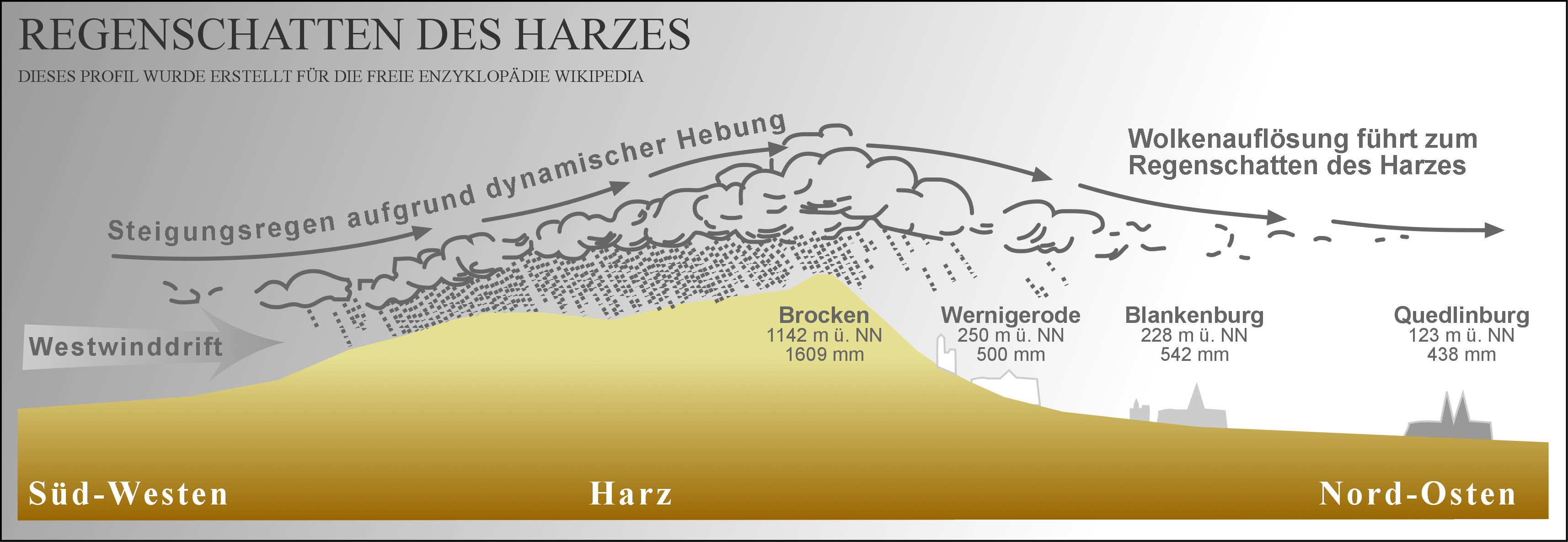 Lee side of the Harz mountains, Germany